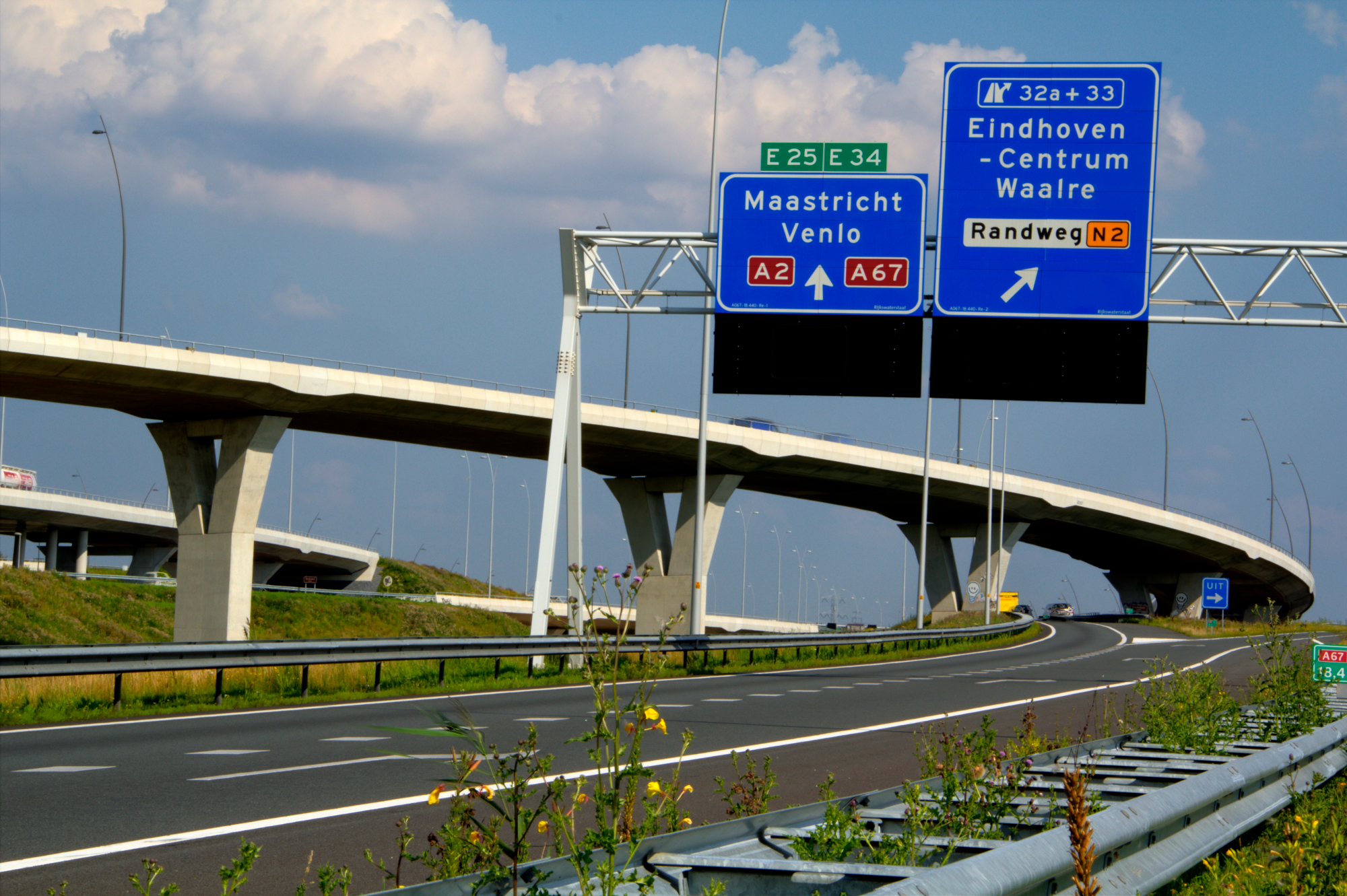 Fly-Over 'De Hogt' Eindhoven